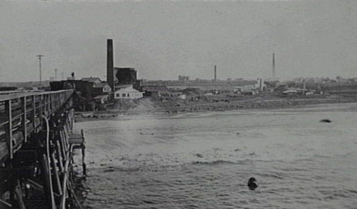 The Royal Australian Historical Society is heading to Wollongong to stage its annual conference on Saturday 22nd and Sunday 23rd October at Centro CBD – 28 Stewart St. Wollongong NSW. The digital revolution is impacting how we research and produce history. There is also an increasing appetite for local and community history that connects people to their identity and place. History plays a critical role in advocacy campaigns to ensure that these places remain part of our cultural landscape in this era of widespread urban development. How historical societies engage with these developments is critical to ensure their continued relevancy in 21st century Australia. The RAHS invites you to join us to explore these topics, learn skills that will support your history projects and enjoy opportunities to network and share histories with RAHS members and friends. Attend an historical tour and our conference dinner on the Saturday evening. Conference details are on our website, which includes the full program and booking form: Go straight to the program and booking form here